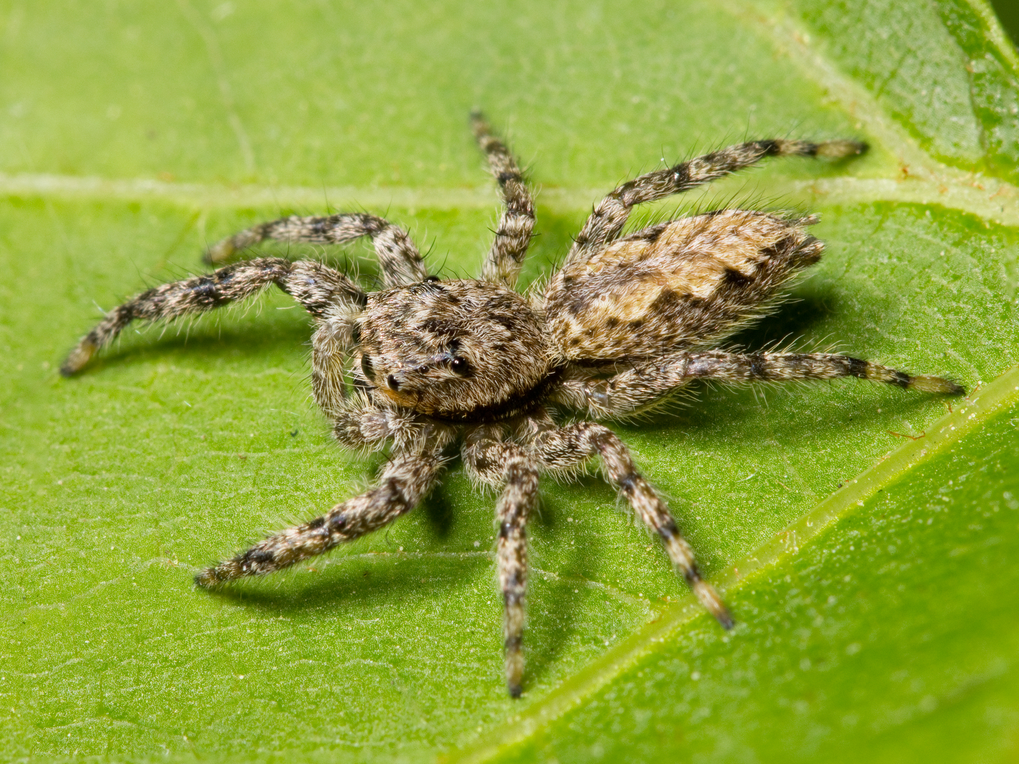 Platycryptus undatus jumping spider in Nashville, Tennessee. Body length: 7 mm.